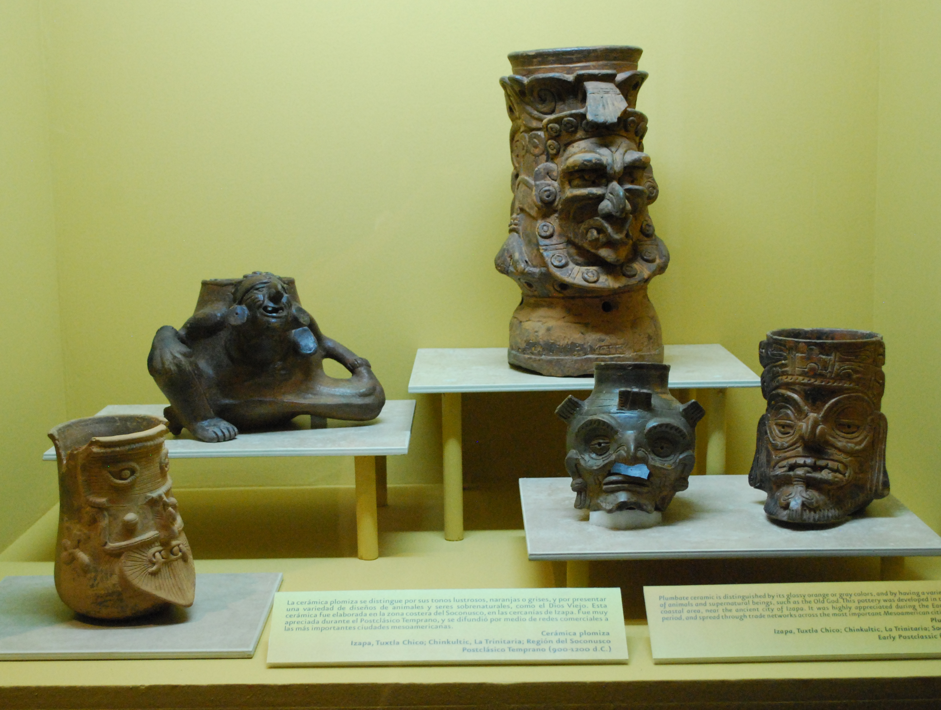 Various pieces of lead treated pottery from various locales on display at the Regional Museum in Tuxtla Gutierrez, Chiapas, Mexico